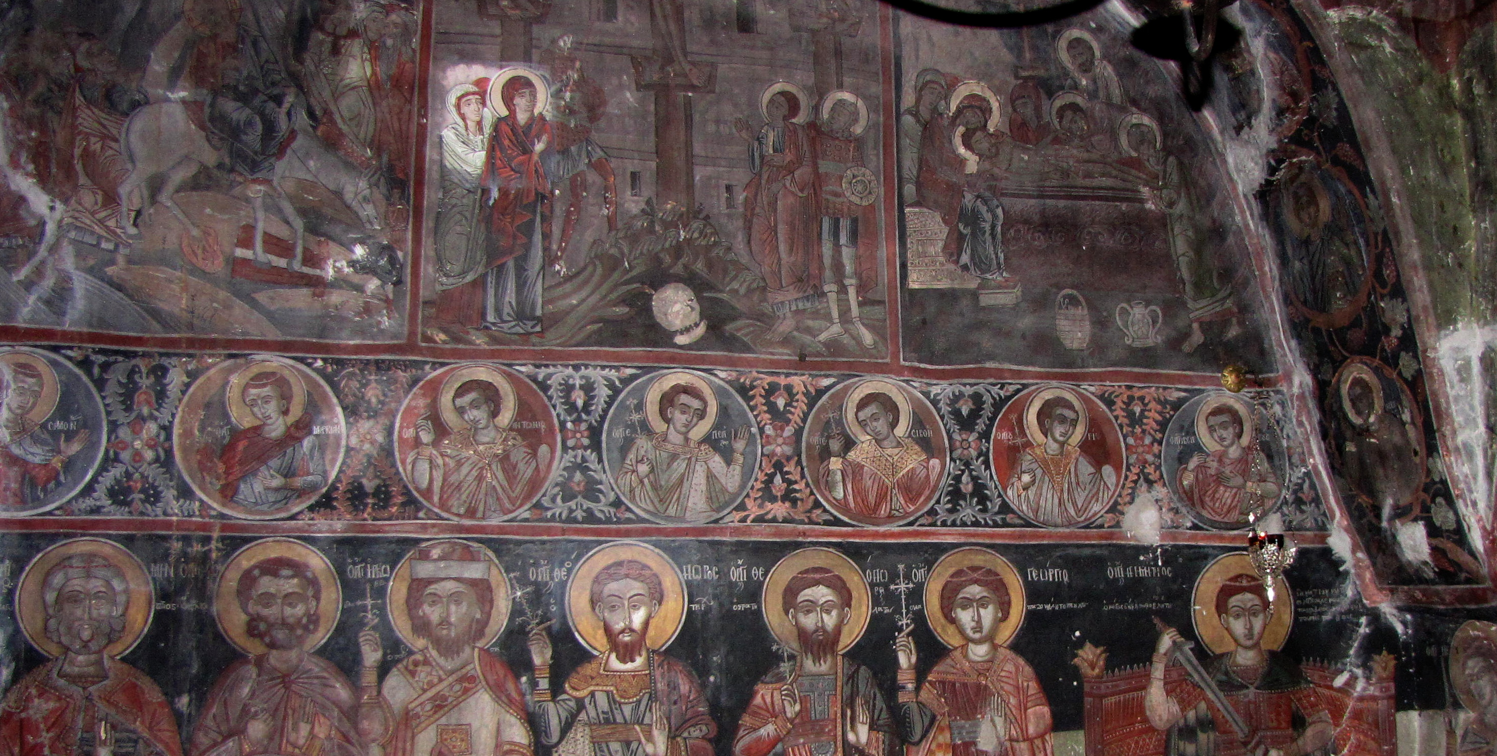 Fresco, painted 1638